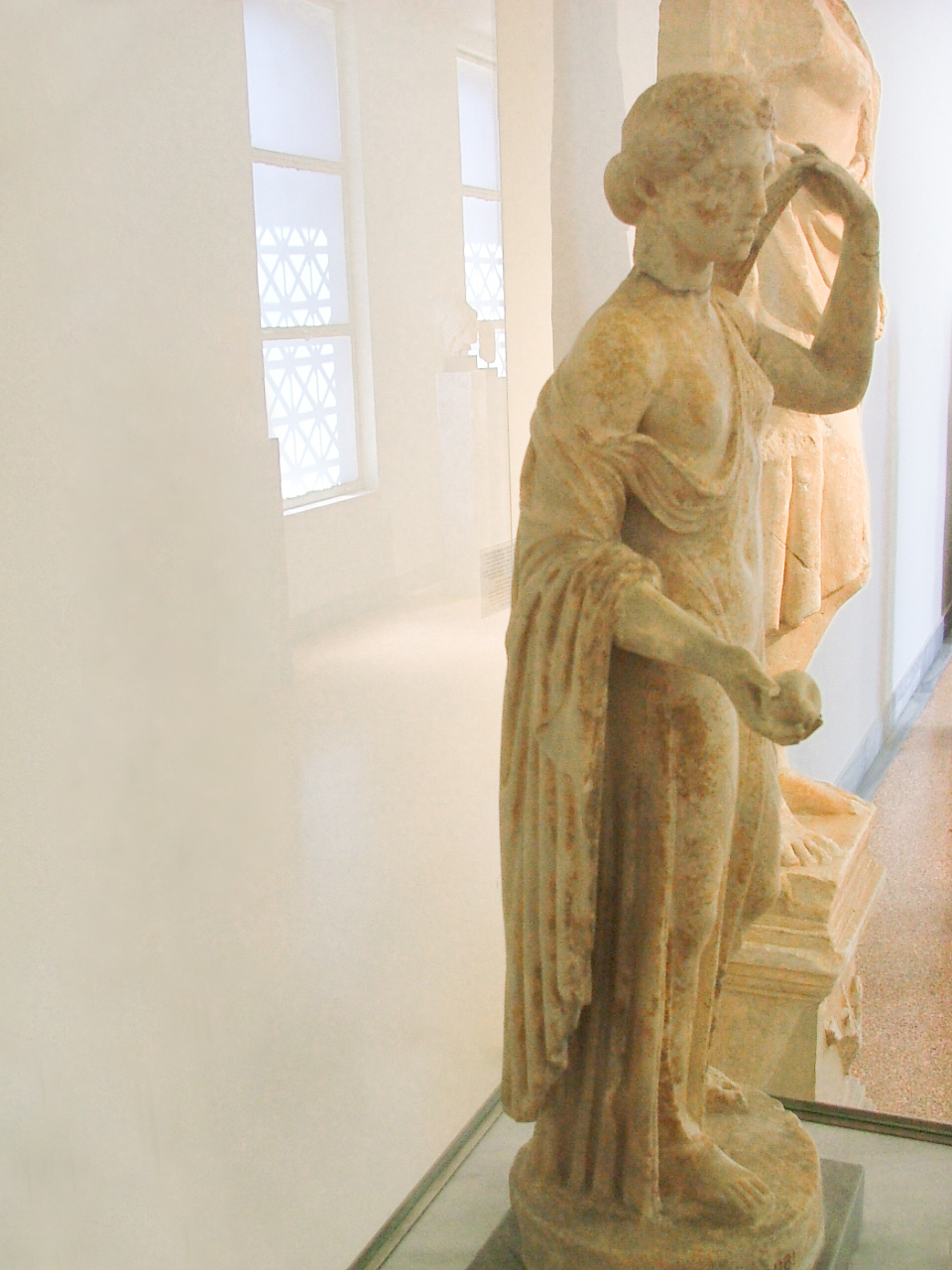 Statuette of Aphrodite found in Epidaurus, in the sanctuary of Apollo Maleatas. It reproduces a bronze prototype by Kallimachos, dated to 410 BC. Representing Aphrodite holding and apple in her hand, and shown either as a goddes of vegetation and fertility, or as participant in the judgement of Paris. Marble. 1st-century AD. Inv. number 1811.